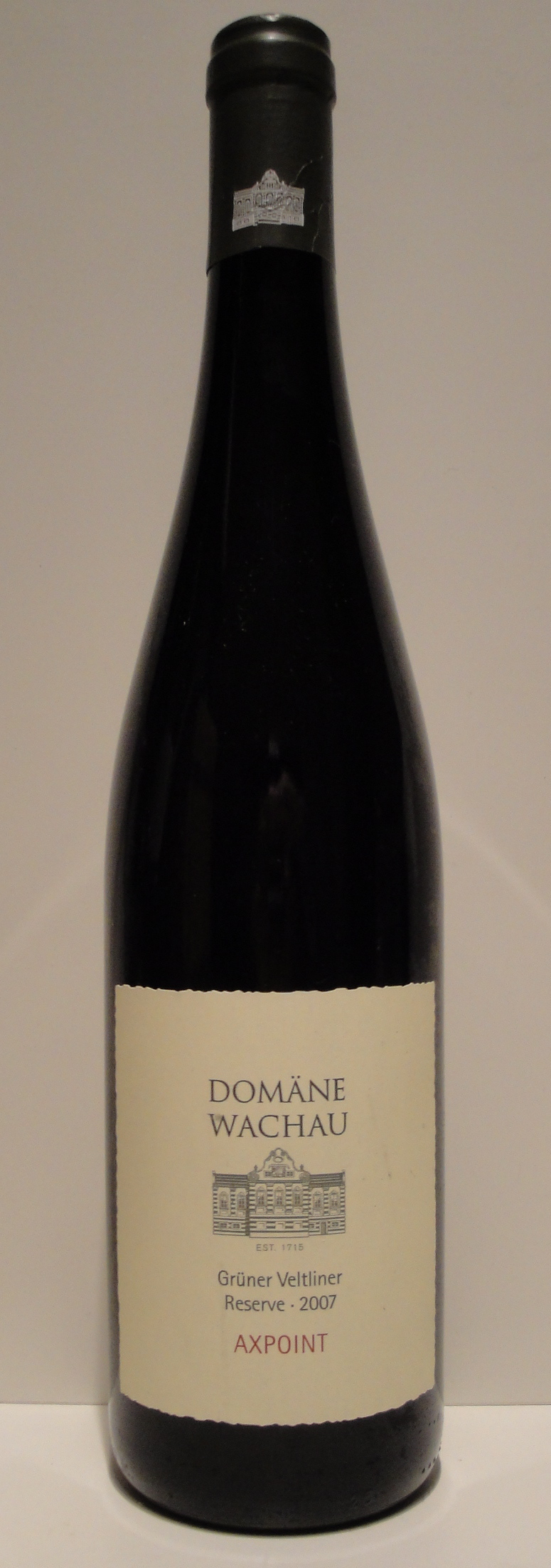 A wine from Domäne Wachau in Austria, Axpoint Grüner Veltliner Reserve 2007